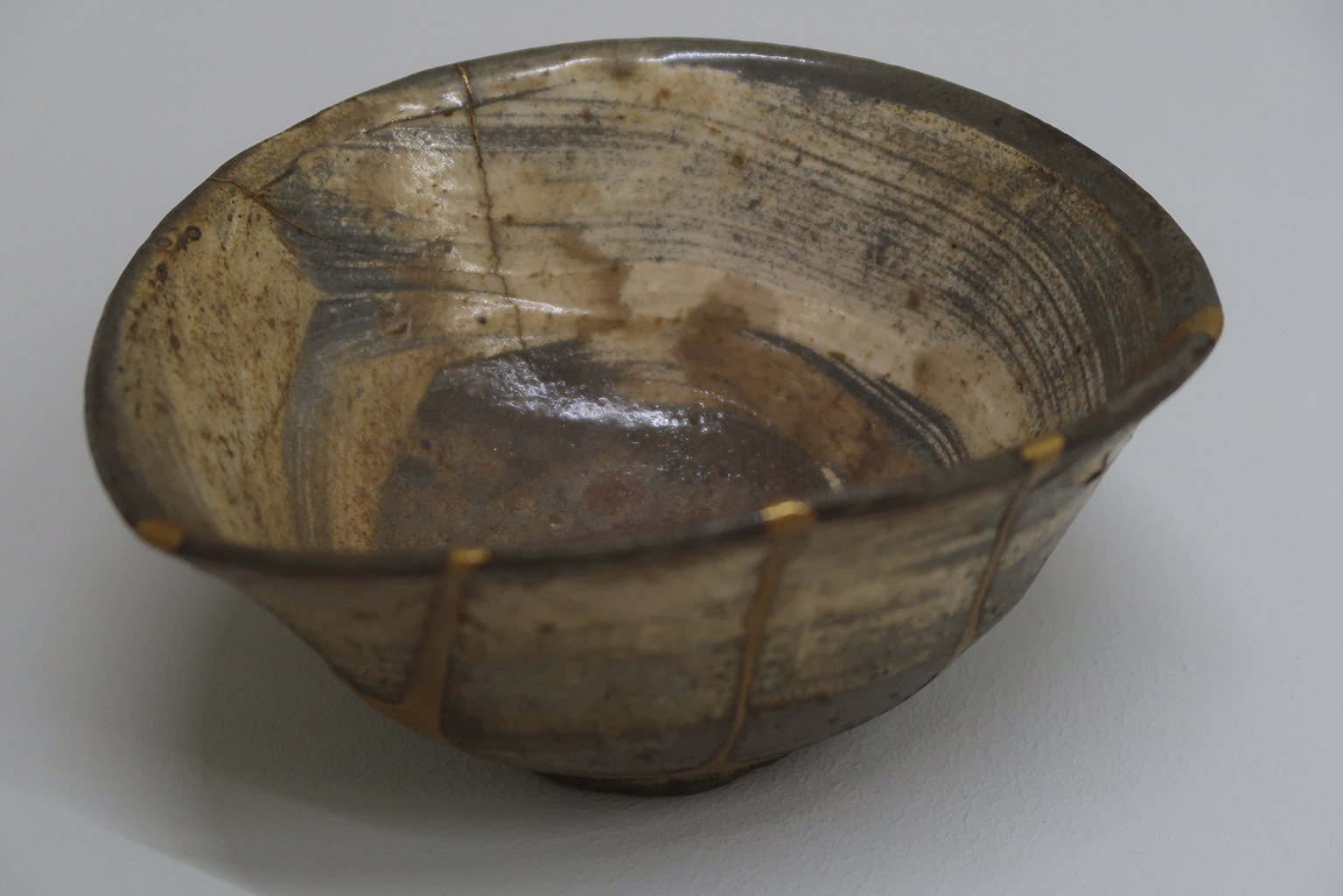 Tea bowl. Korea, Choson (Joseon) period (1392-1910), 16th century. Stoneware with inlaid and engobe decoration - buncheong - (type hakeme mishima ), change and repair with gold lacquer ( kintsugi ). Musée Guimet. Legacy Henri Rivière, 1952, MA 1265.